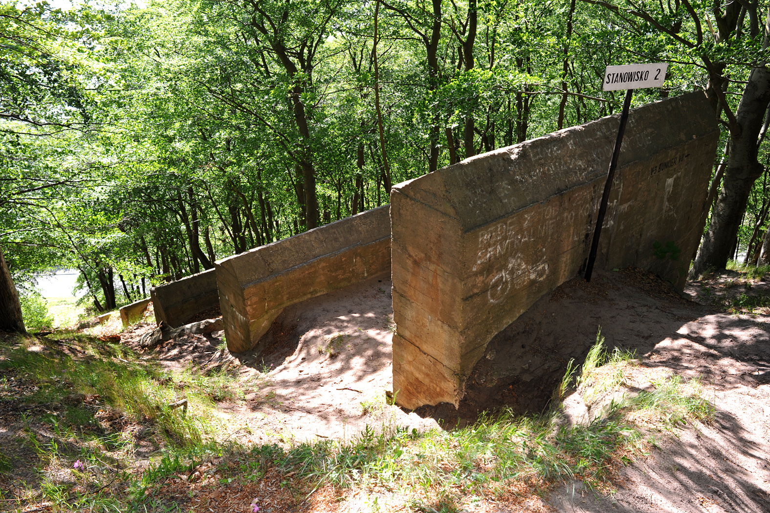 V3 test area Zalesie near Międzyzdroje, view from above to multi-charge principle cannon emplacement center; Farther Pomerania, Poland.